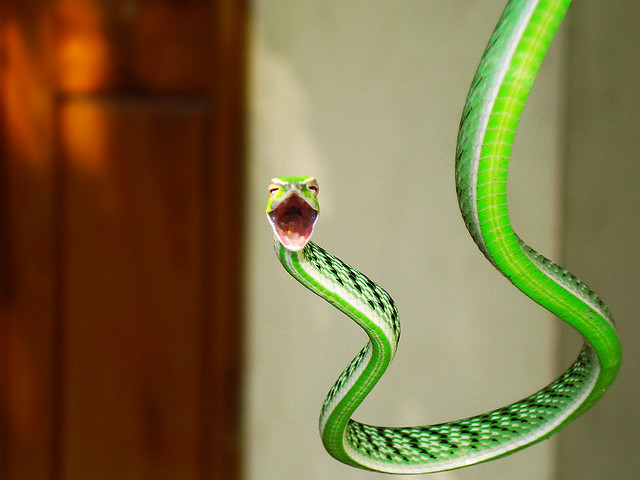 This is Greeno my pet snake: he is angry so much...i was just catching him from the top and adjusting the focal point...after many tries i felt this shot was better.....dont get scared he will not bite at all.. he was just angry on me :) Camera: Sony DSC-W35 License on Flickr (2011-12-17): CC-BY-2.0